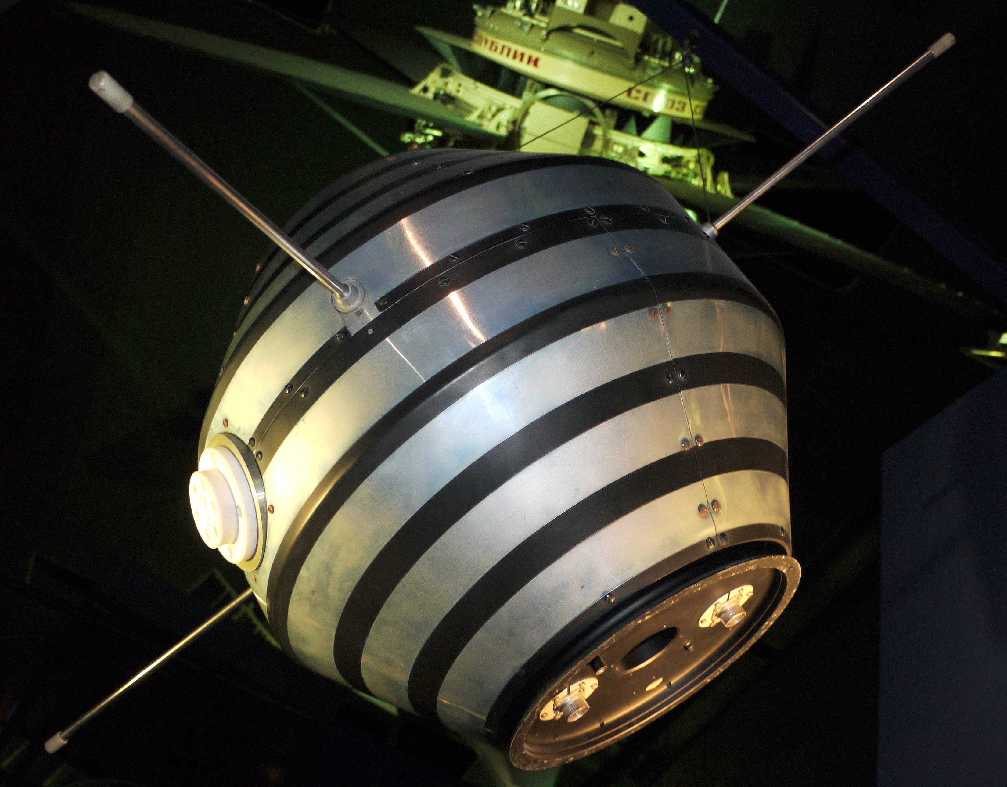 Satellite 1A Asterix, first french satellite (1965), Museum of Air and Space Paris, Le Bourget (France)